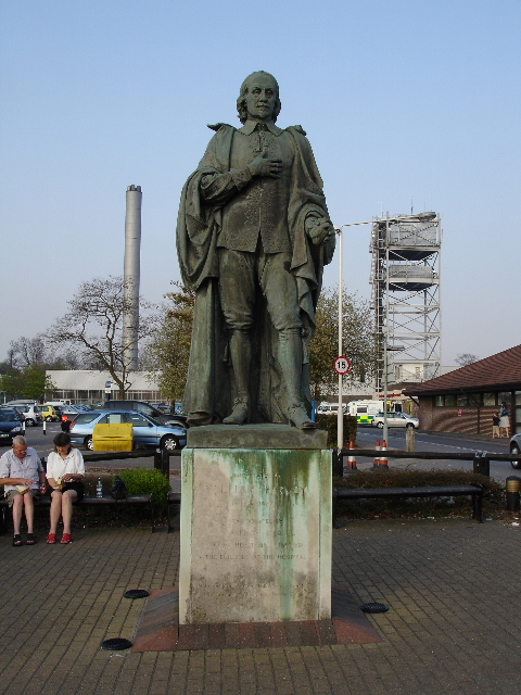 Statue of William Harvey It was William Harvey 1578-1657 who discovered that blood circulated around the body. The statue stands opposite the main entrance to the William Harvey Hospital.